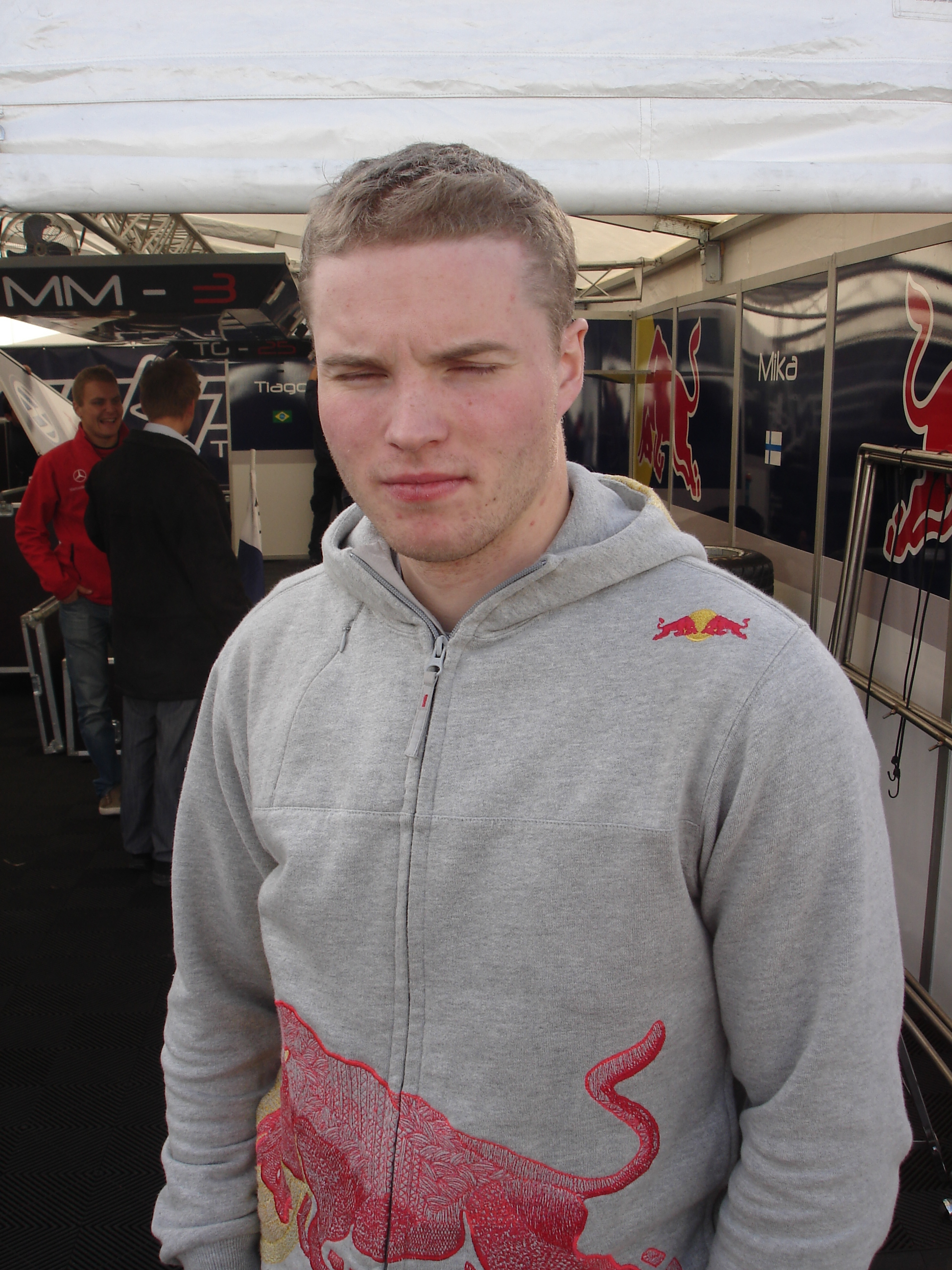 Mika Mäki: the photo was taken during 2009's second DTM race weekend at Hockenheim